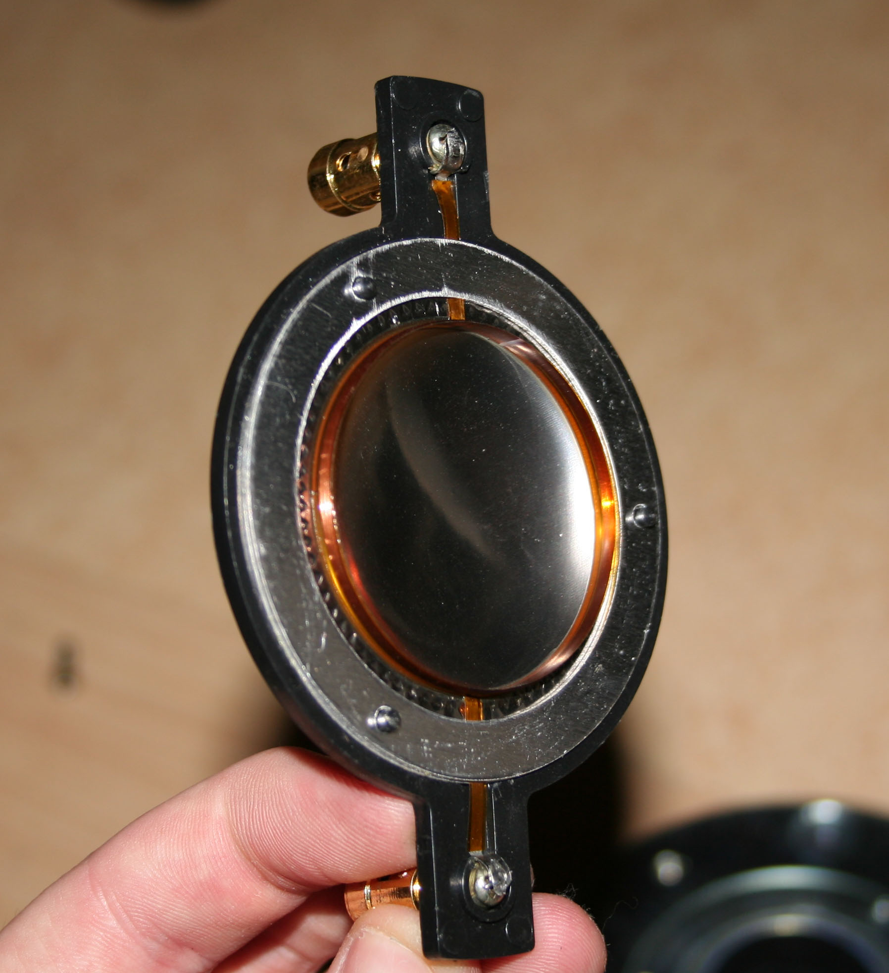 Voicecoil and membrane from a high power tweeter.